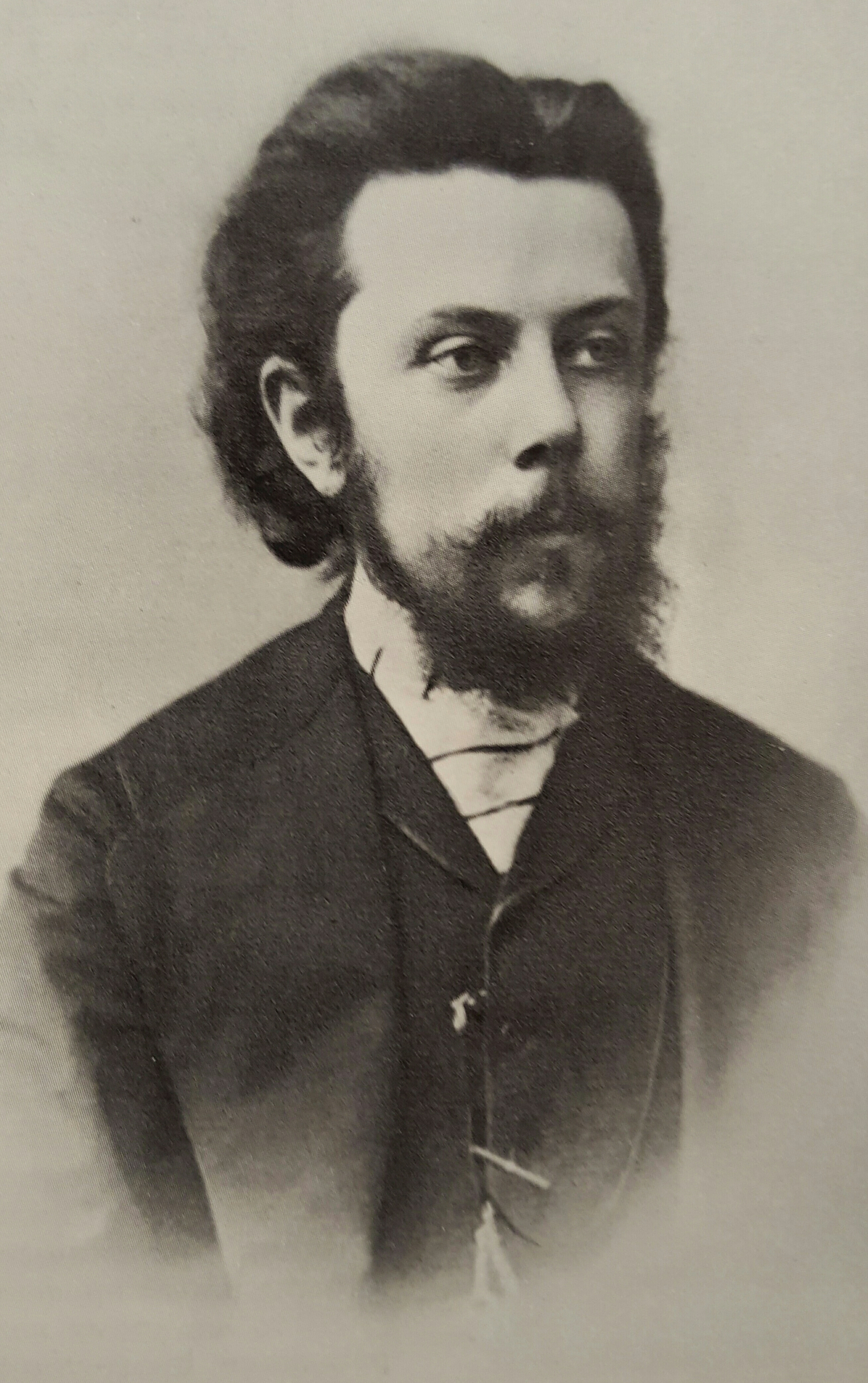 Modest Petrovich Musorgskiy, 1865